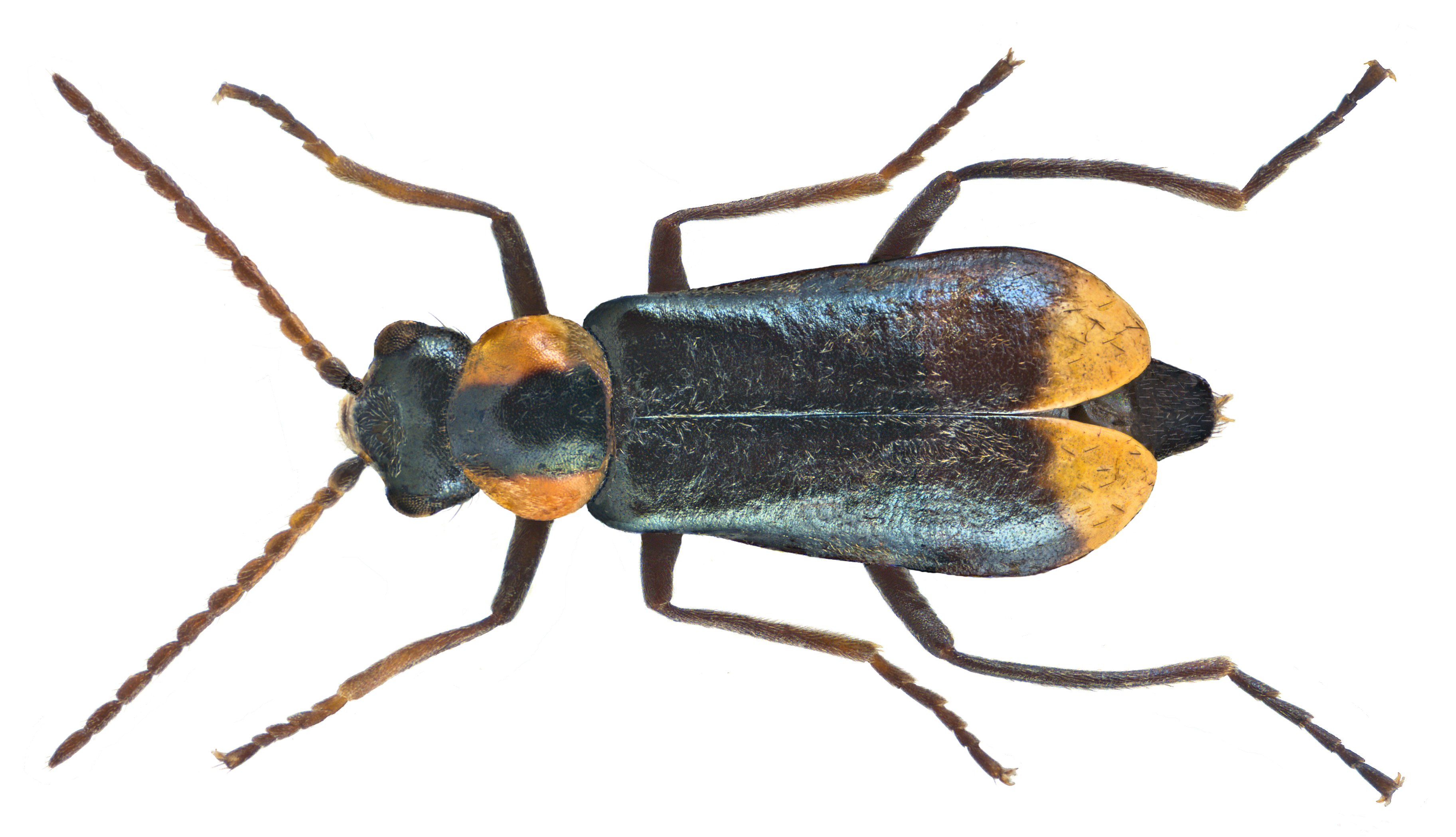 Family: Malachiidae Size: 2,9 mm (2,0-3,0 mm) Distribution: Europe Ecology: on flowering grasses Location: Germany, Bavaria, Upper Franconia, Kulmbach leg.det. U.Schmidt, 5.VII.1975 Photo: U.Schmidt, 2015